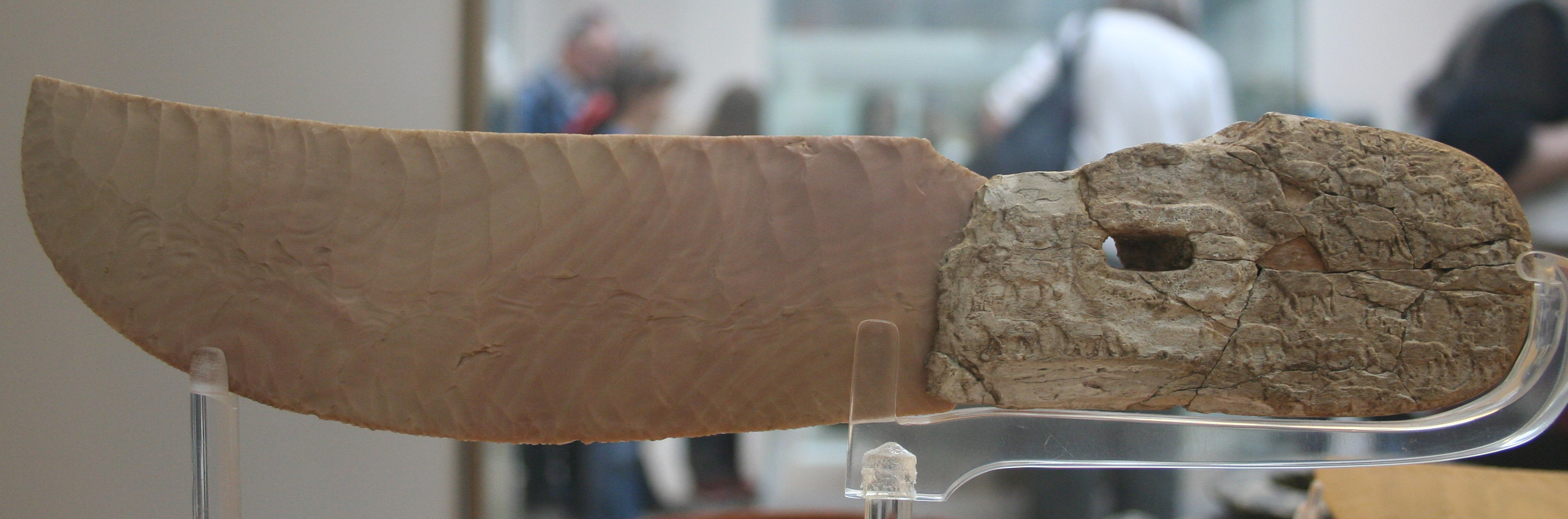 British Museum, London